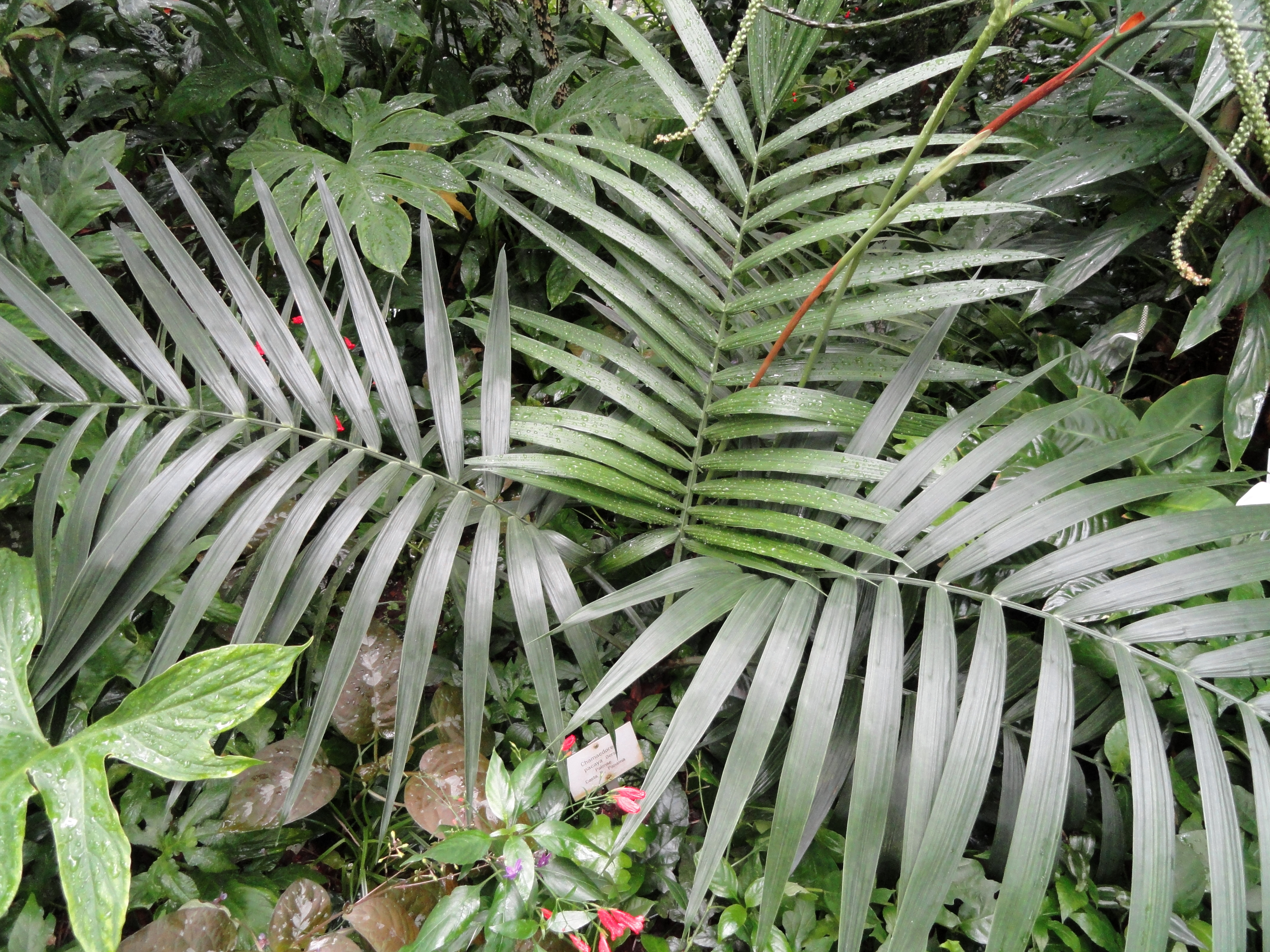 Botanical specimen in the Palmengarten, Frankfurt am Main, Germany.